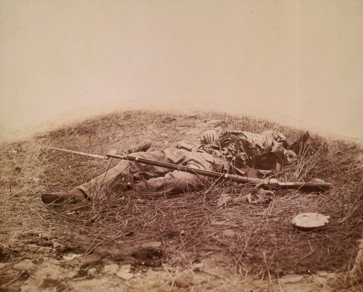 A Union soldier killed by a shell in "the Wheatfield" at Gettysburg, July 3, 1863. His arm is torn off and the shell completely disemboweled him.